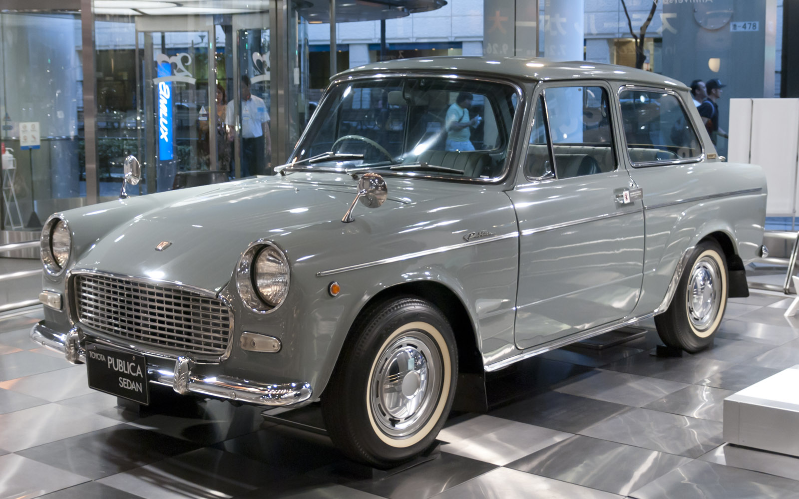 1st generation Toyota_Publica Deluxe Model UP10D （1963 - 1966）